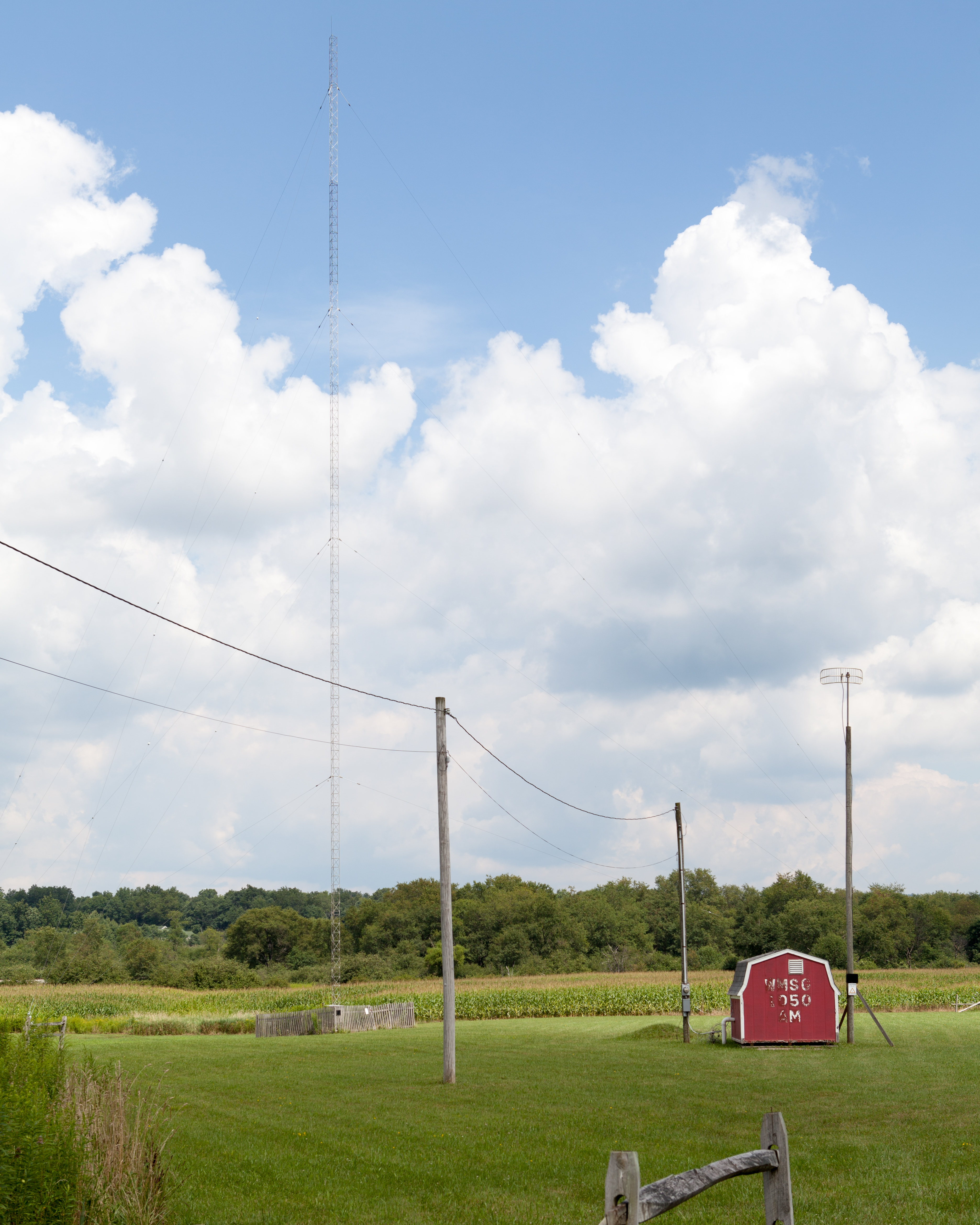 WMSG (AM) transmitter building and antenna, at the end of Green Brier Road, Oakland, Maryland.